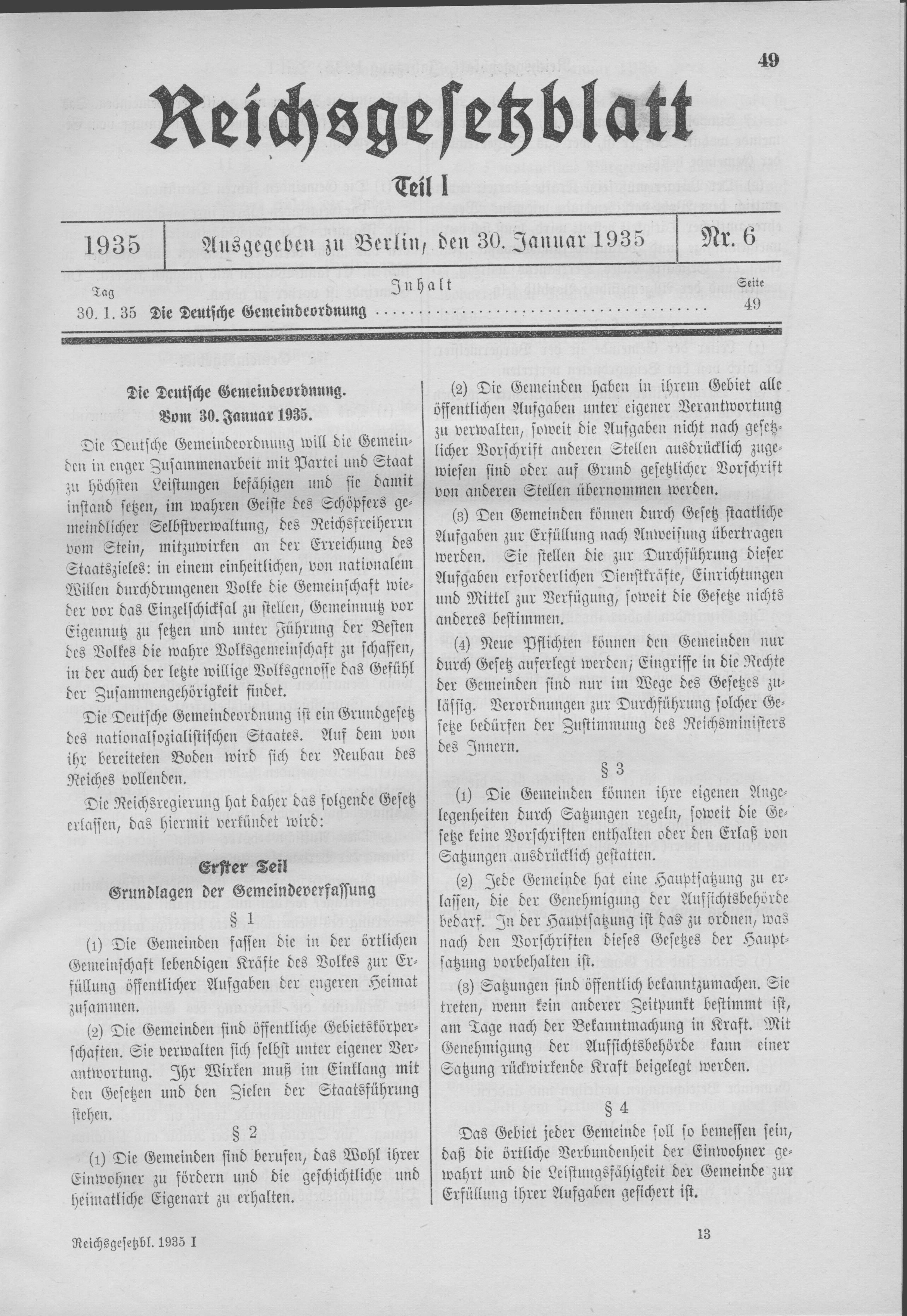 Scan from the Imperial Law Gazette of Germany, 1935, part 1